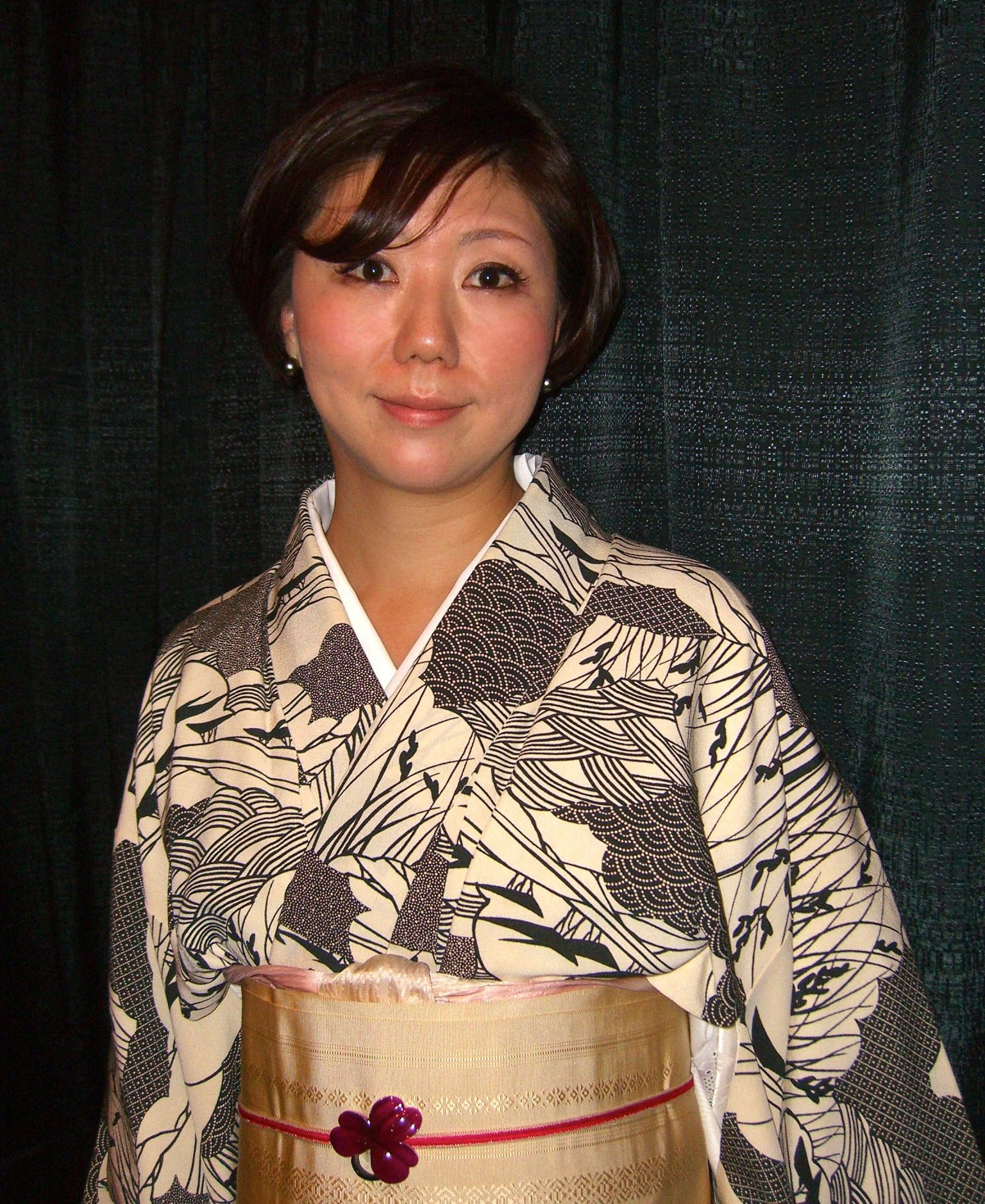 Japanese comics creator Moyoko Anno on Day 3 of the 2012 New York Comic Con, Saturday October 13, 2012 at the Jacob K. Javits Convention Center in Manhattan. This photo was created by Luigi Novi. It is not in the public domain, and use of this file outside of the licensing terms is a copyright violation.